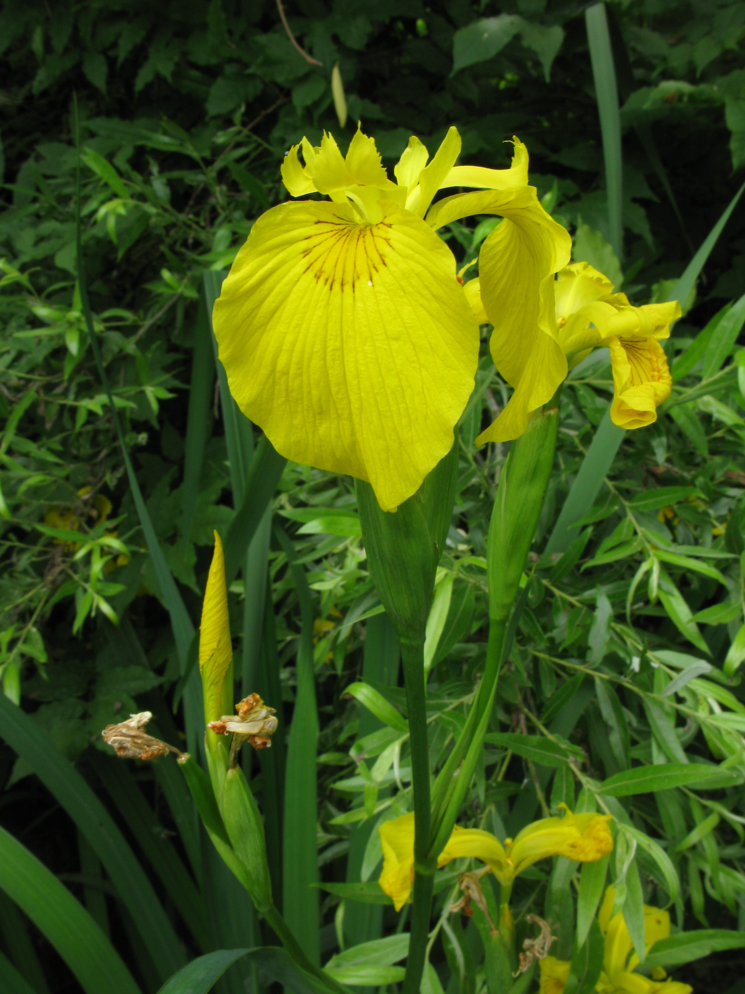 Iris pseudacorus, Aizu area, Fukushima pref., Japan